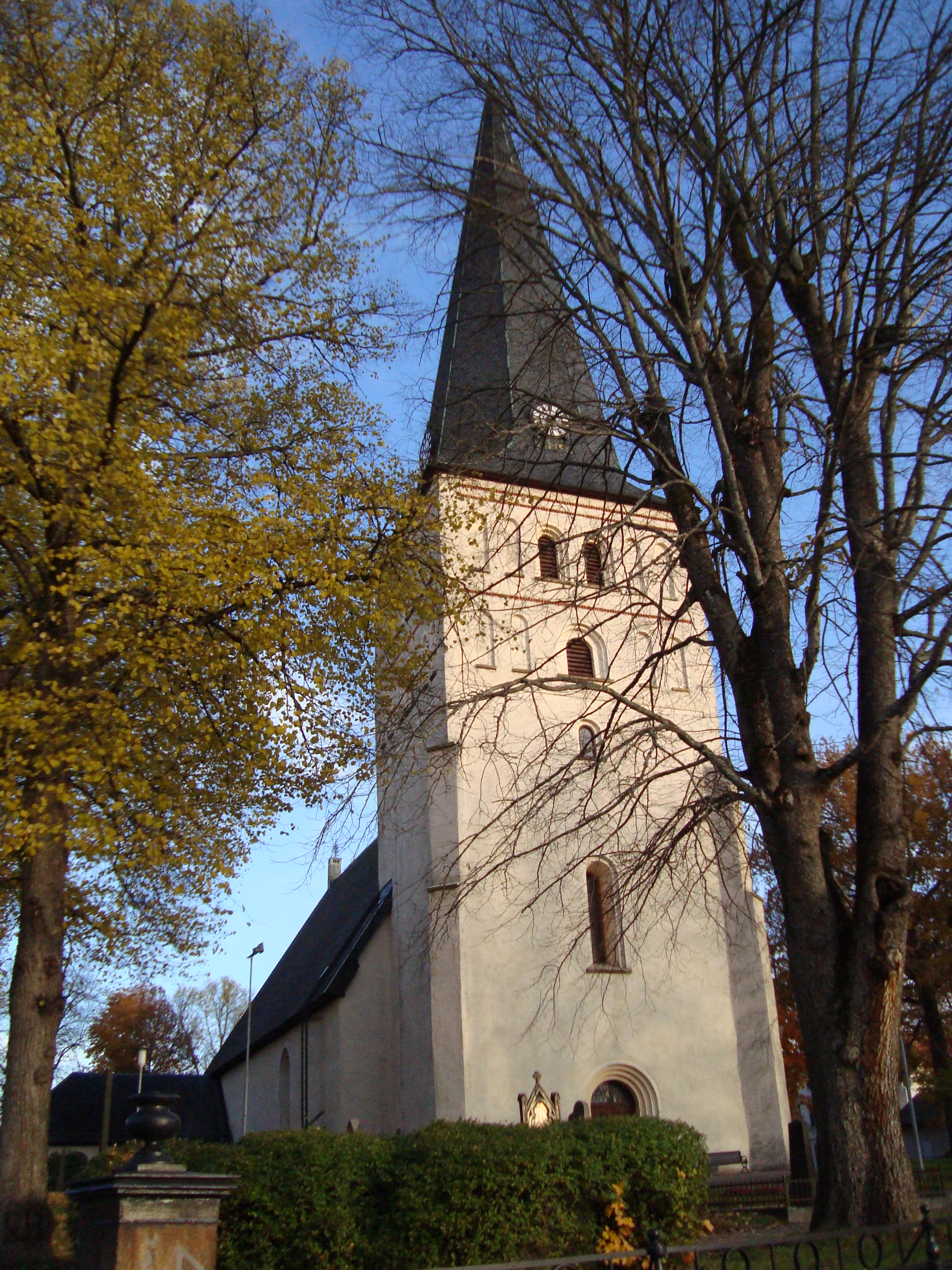 Church of Norberg, Sweden